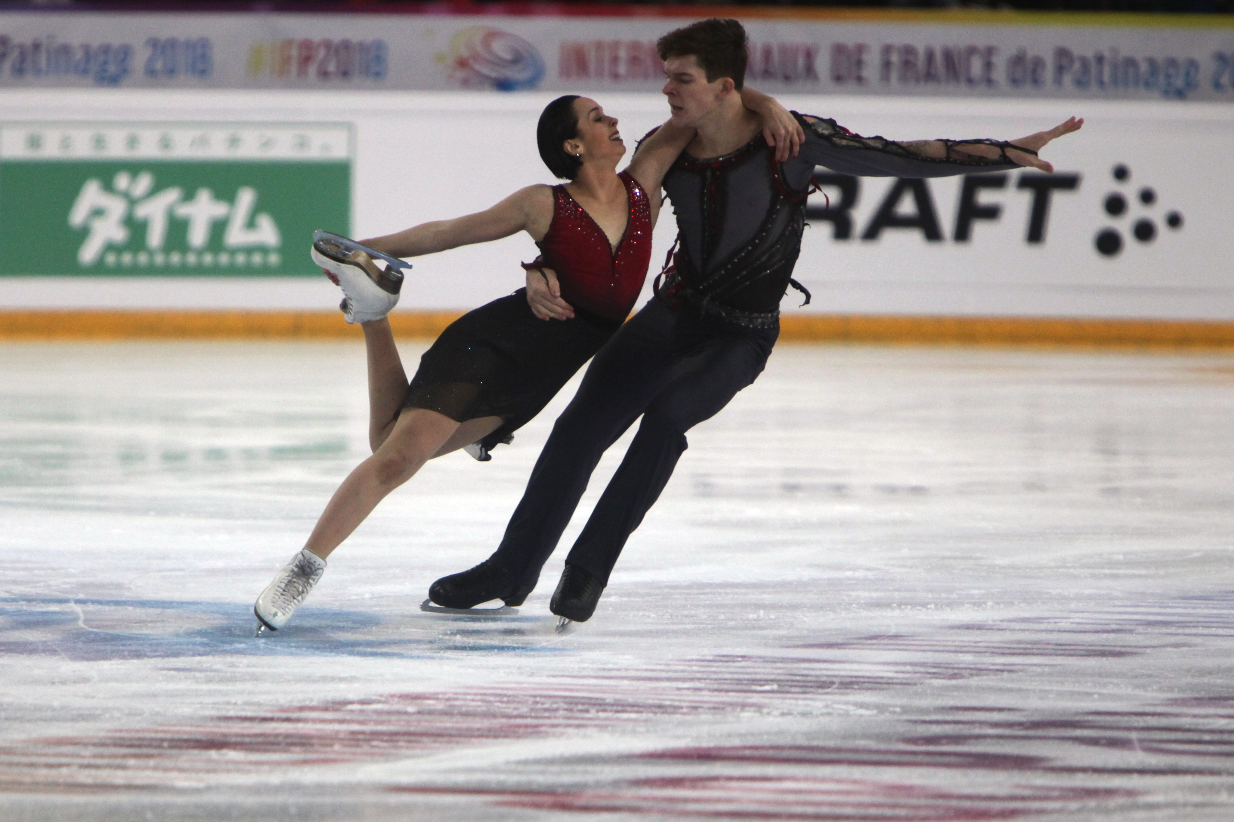 Betina Popova and Sergey Mozgov during the Free Dance at the Internationaux de France de Patinage 2018.